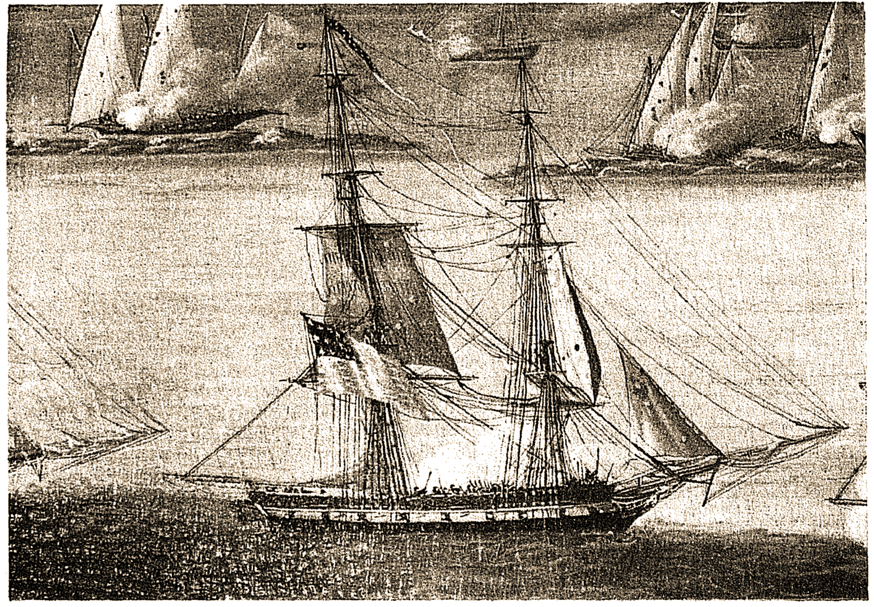 USS Argus (1803), was a brig in the United States Navy. The plate is from Navy Document, Vol V. This plate mistakenly marked as USS Nautilus in the documents, but in fact is USS Argo. Ref: The history of the American sailing Navy: the ships and their development by Chapelle, Howard Irving